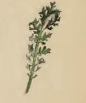 Stainton’s Natural History of the Tineina (1855–1873): Bucculatrix cristatella gnawed yarrow leaf with the cocoon near its tip